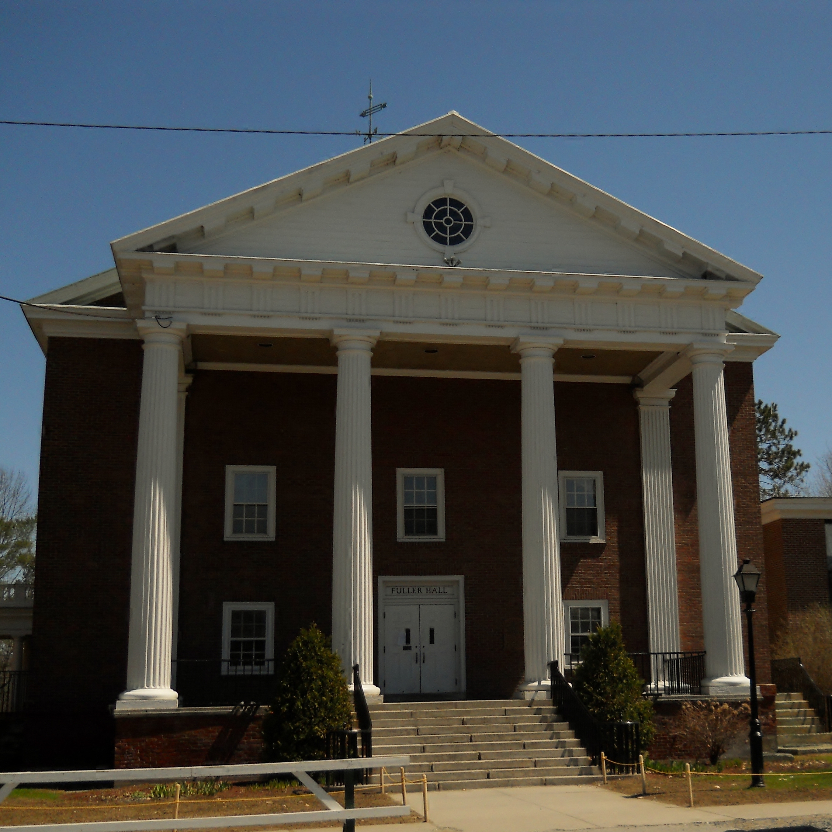 Fuller Hall of St. Johnsbury Academy on Main Street in St. Johnsbury, Vermont